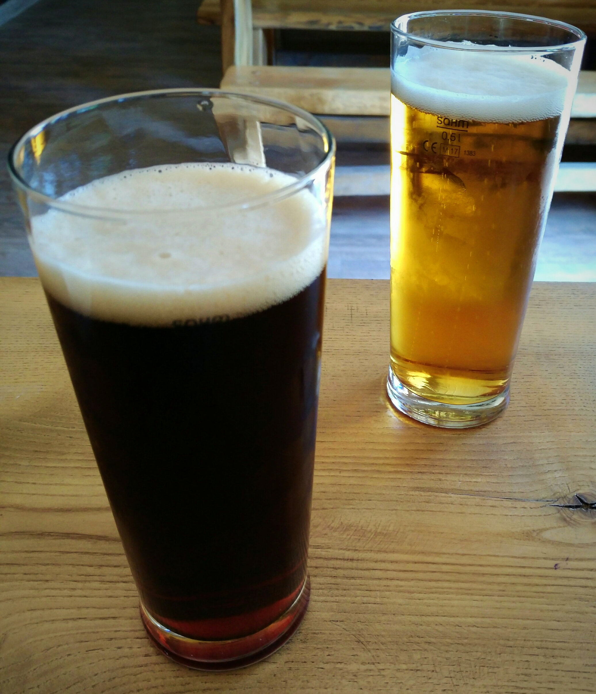 Dark beer and light beer